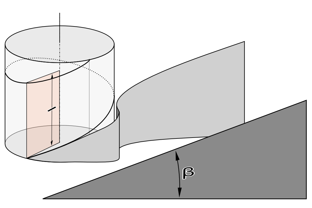 Screw (bolt) 01